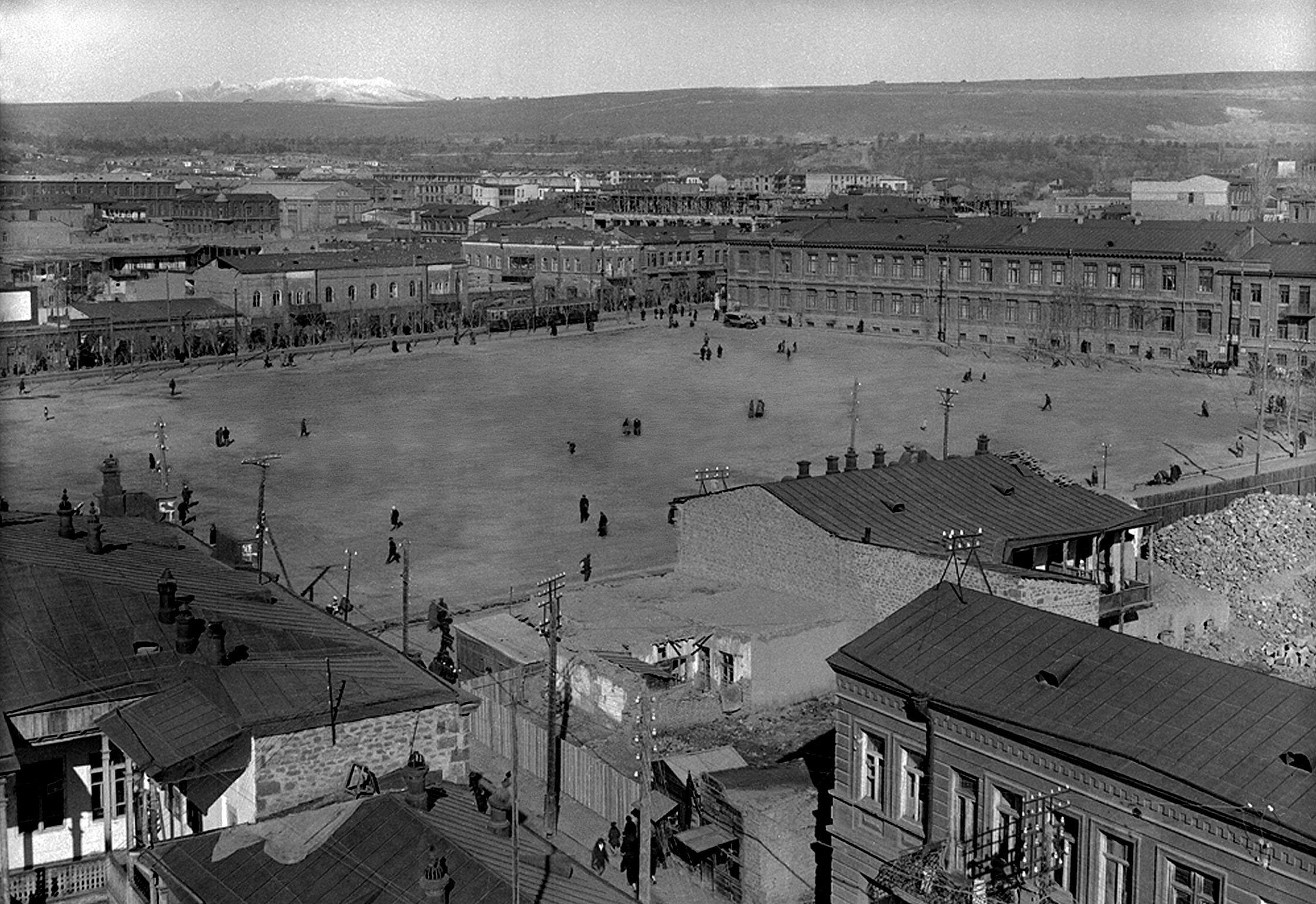 The Main Square of Yerevan in 1935-1937, today its known as the Republic Square